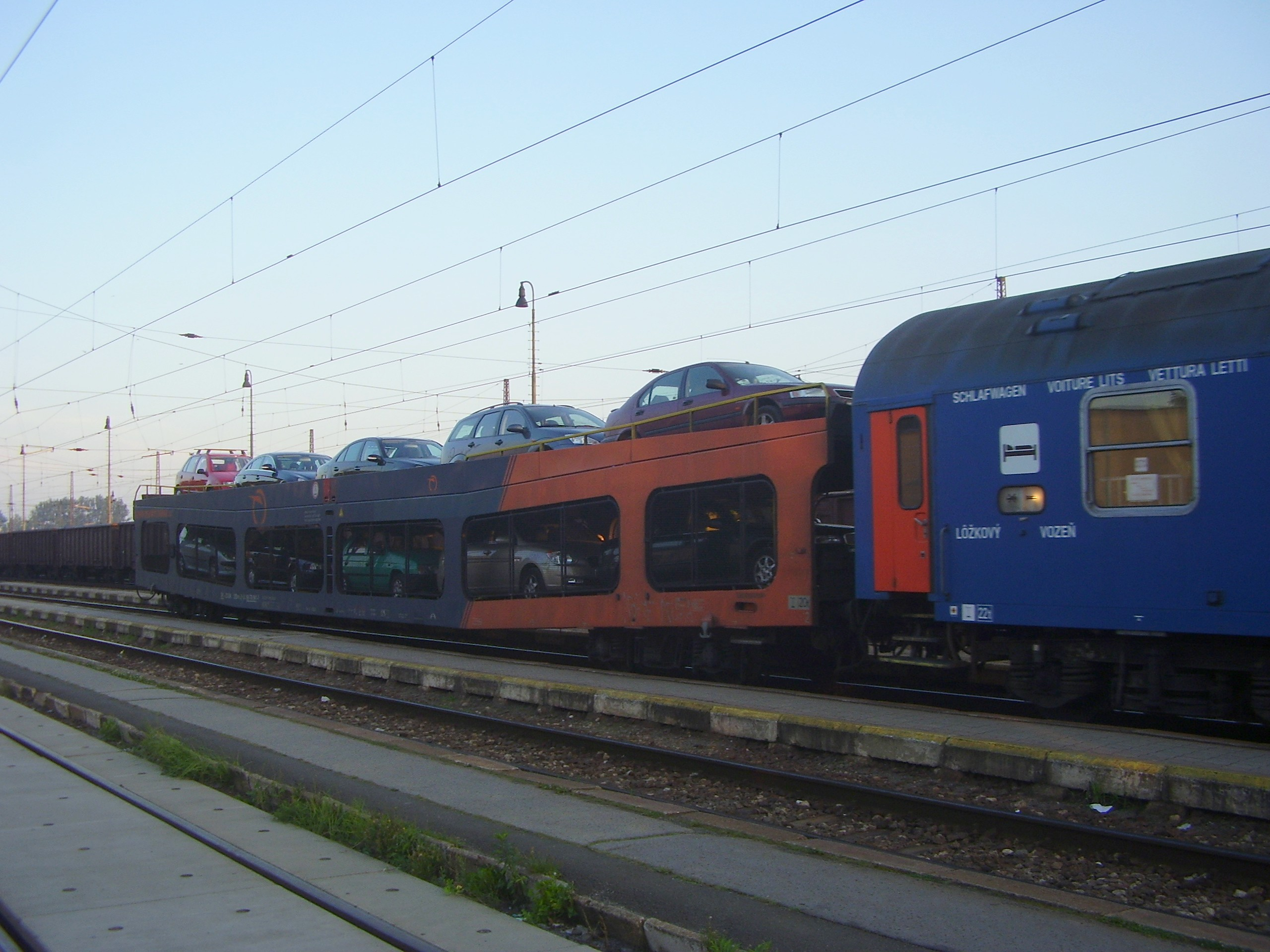 Rail car for transporting of cars - ZSSK